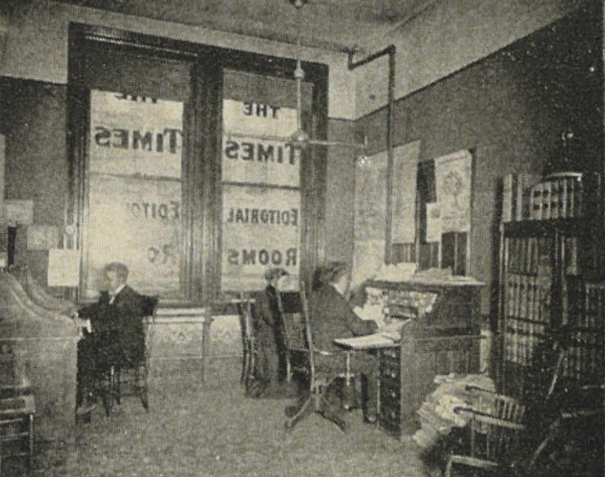 "Room of the editor in chief", one a group of four photos in brochure Seattle and the Orient (1900) collectively captioned "The Seattle Daily Times—Editorial Department." This is part of a long section on The Seattle Daily Times, publisher of the brochure/booklet. The newspaper is now known simply as the Seattle Times. In 1900, the Times offices were in the Boston Block on the southeast corner of Second Avenue and Columbia Street.